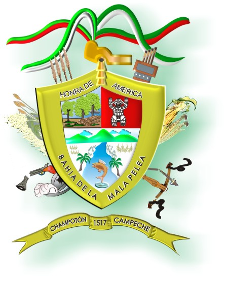 Shield Arms Municipio of Champotón